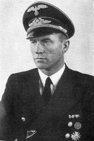 Official photo of Albert Ganzenmüller after his appointment as the Secretary of the Reich Transport Ministry and Deputy Director-General of the German State Railways "Reichsbahn" (1942 or 1943).